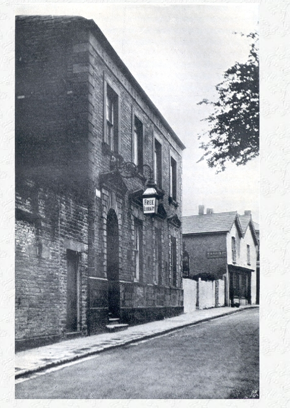 Photo of building Wallace and his brother designed and built for Mechanics Institute of Neath in the 1840s.